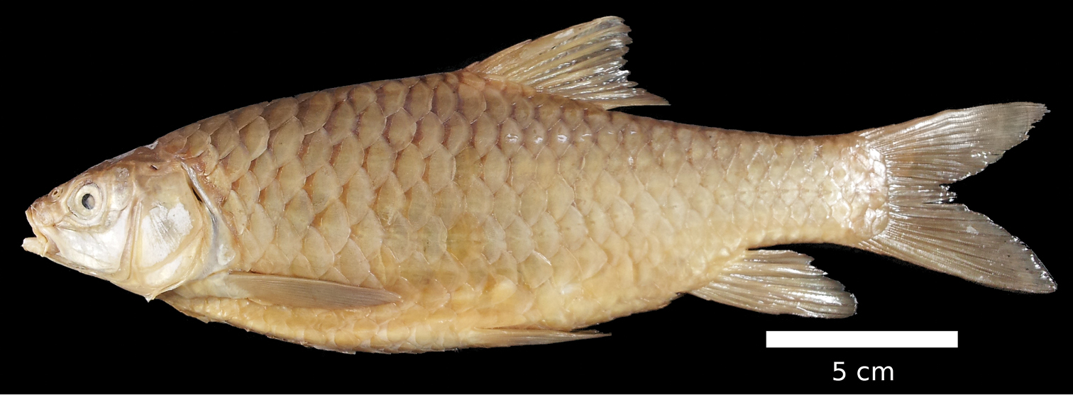 Carasobarbus luteus, lectotype (NMW 54253:2) from Tigris near Mosul. Naturhistorisches Museum Wien, photo E. Lavergne.